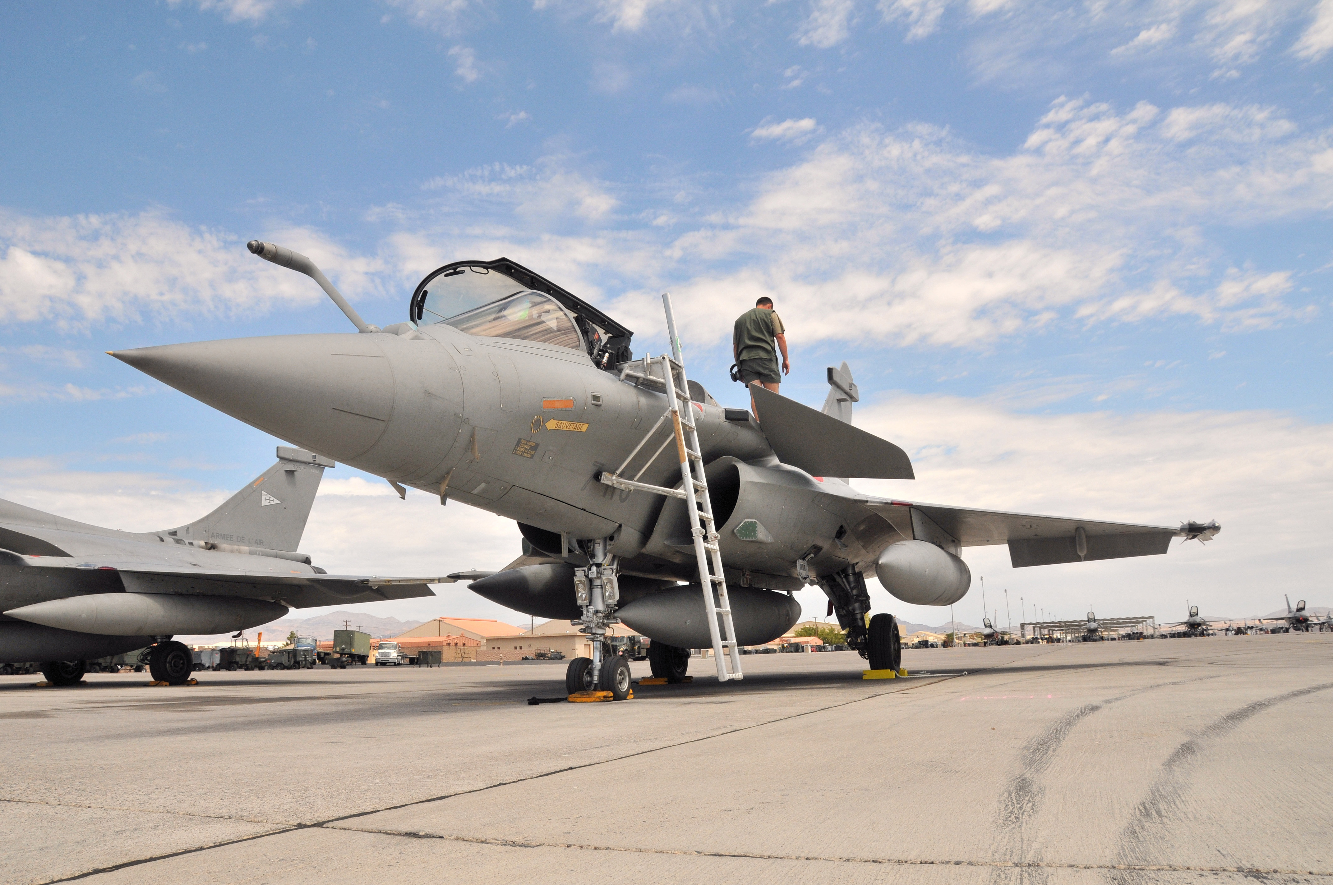 A crewman performs a post-flight check on a French air force Rafale fighter at Nellis Air Force Base, Nev., on Aug. 7. The French team is at Nellis for Red Flag 08-4, an two-week exercise that pits forces in a realistic aerial "battlefield" to hone the fighting skills of American and allied airmen. Republic of Korea, Indian, Navy and Air Force teams are joining the French air force in Red Flag 08-4.